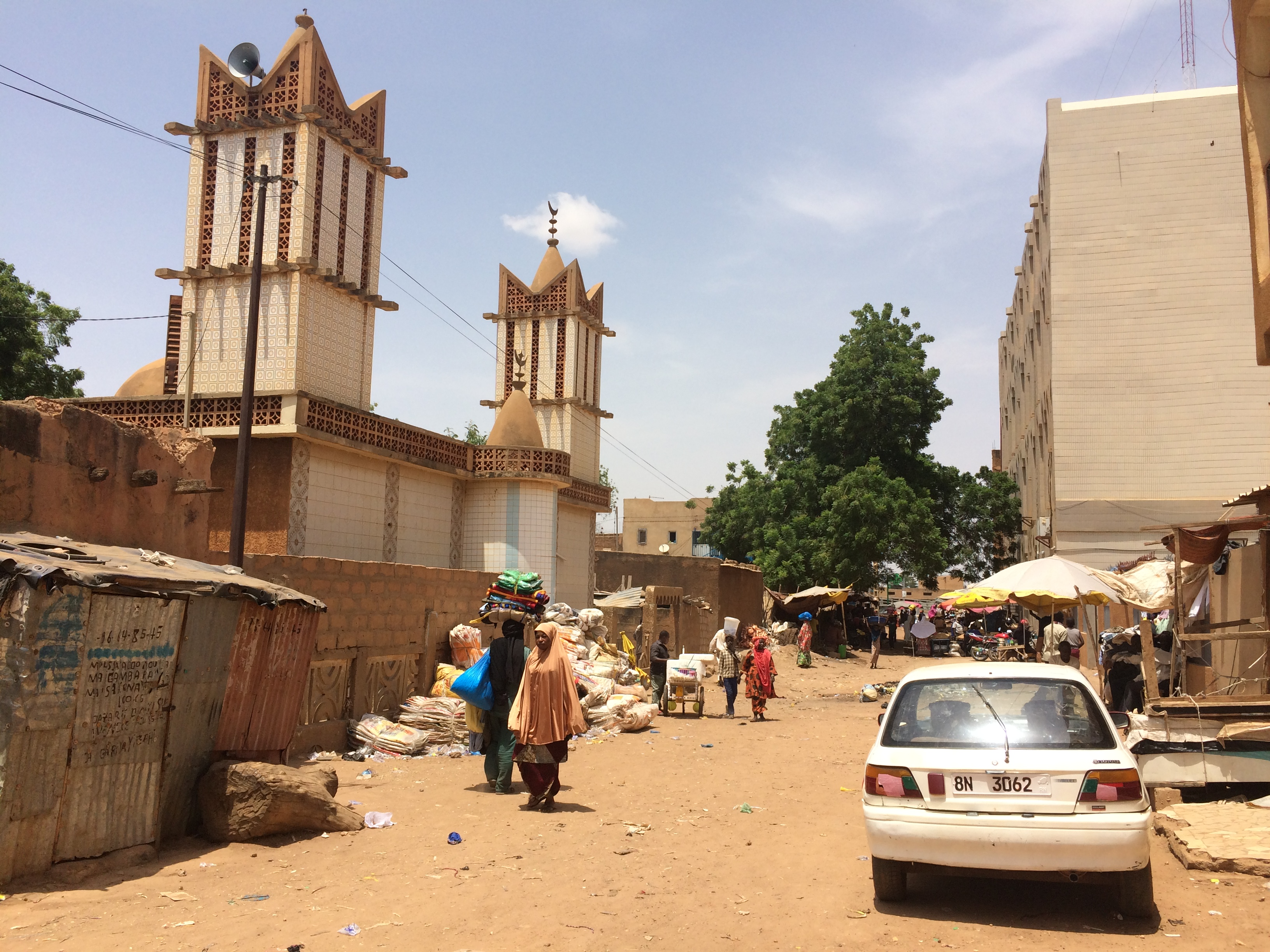 Street scene with mosque in Rue LI-26 (Liberté neighborhood, Niamey, Niger).